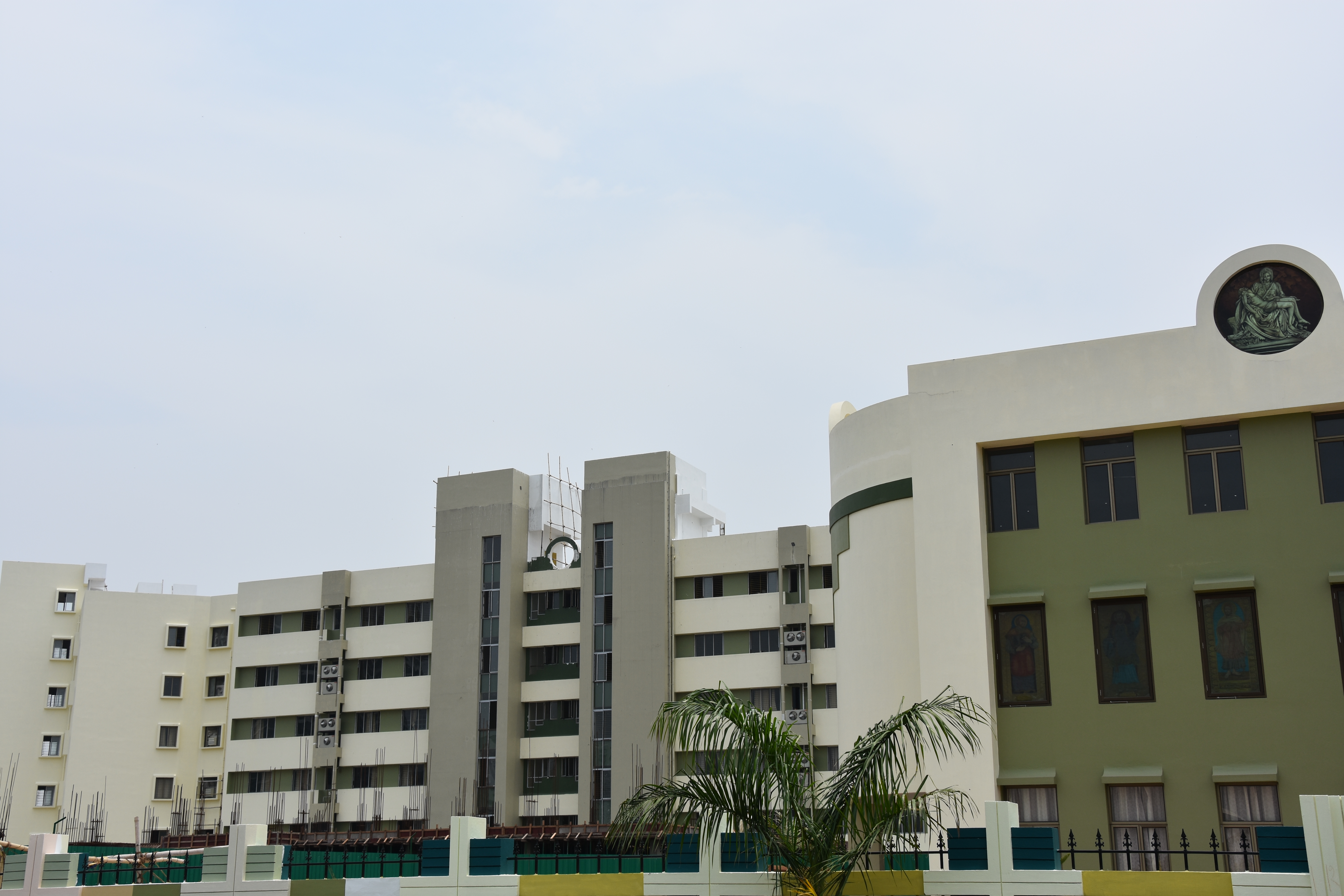 academic